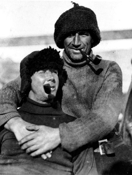 Tom Crean (top) with Alf Cheetham, aboard the Endurance, 1914.